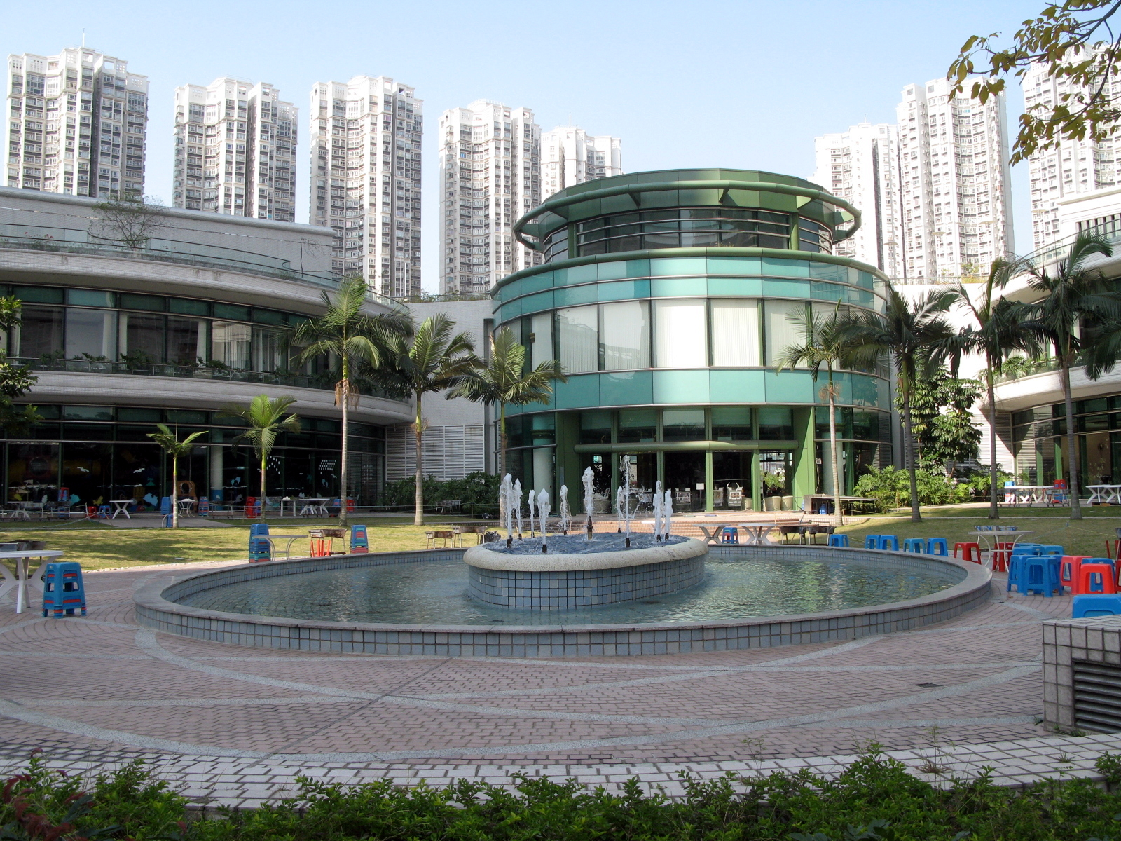 Kingswood Country Club garden view